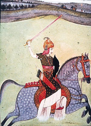 An artist's impression of Peshwa Baji Rao I (1699-1740), a Maratha general and Prime Minister to the fourth Maratha Chhatrapati (Emperor) Shahu.